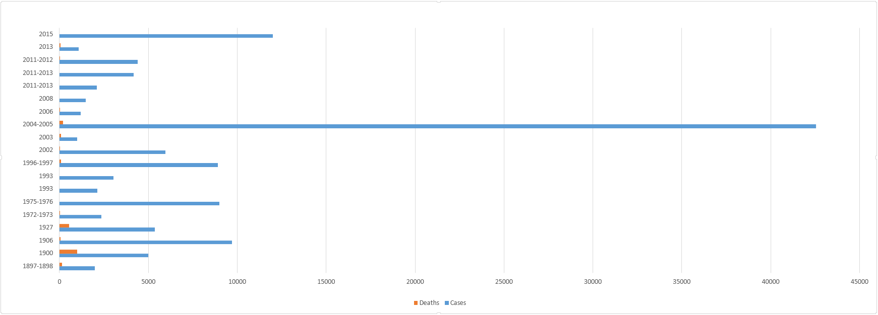 Number of cases and deaths due to typhoid fever, by outbreak.